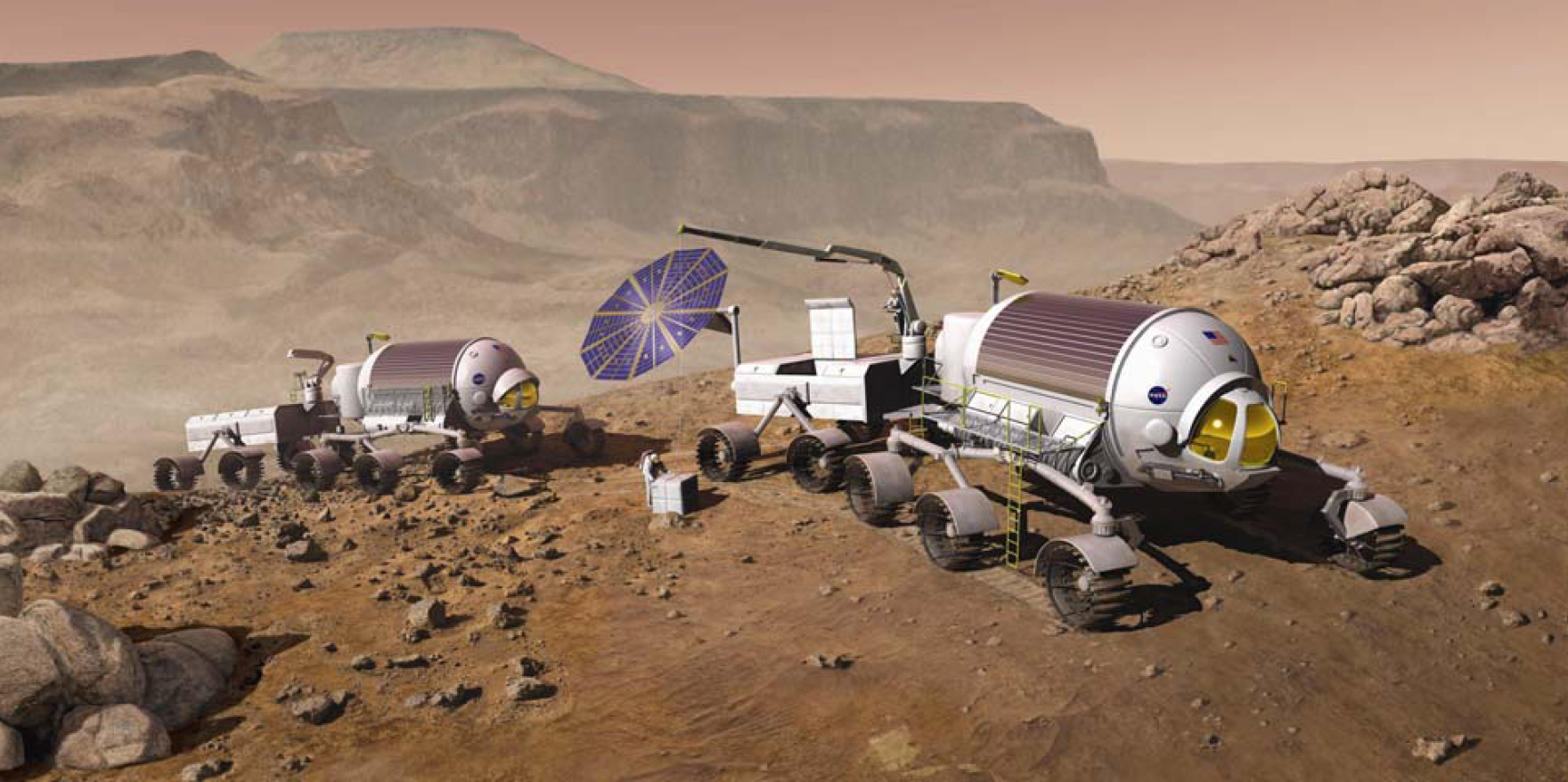 An artist’s concept depicting long-range exploration on the surface of Mars using pressurized rovers.